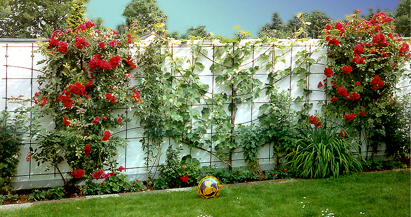 Climbing assistance - Rankhilfe